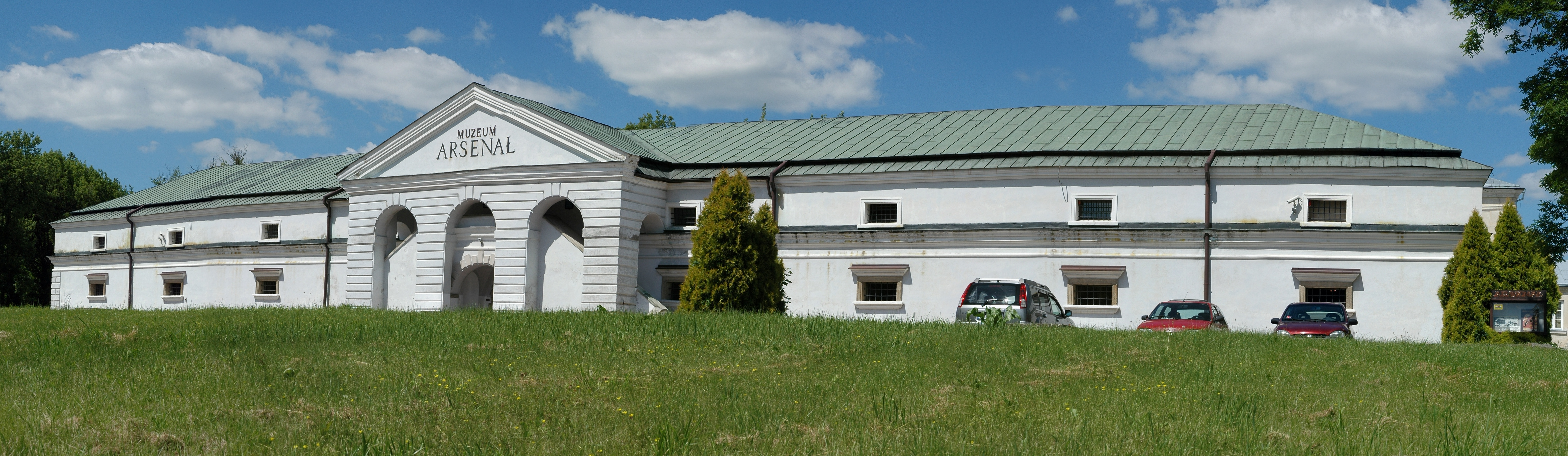 Arsenal Museum in Zamość